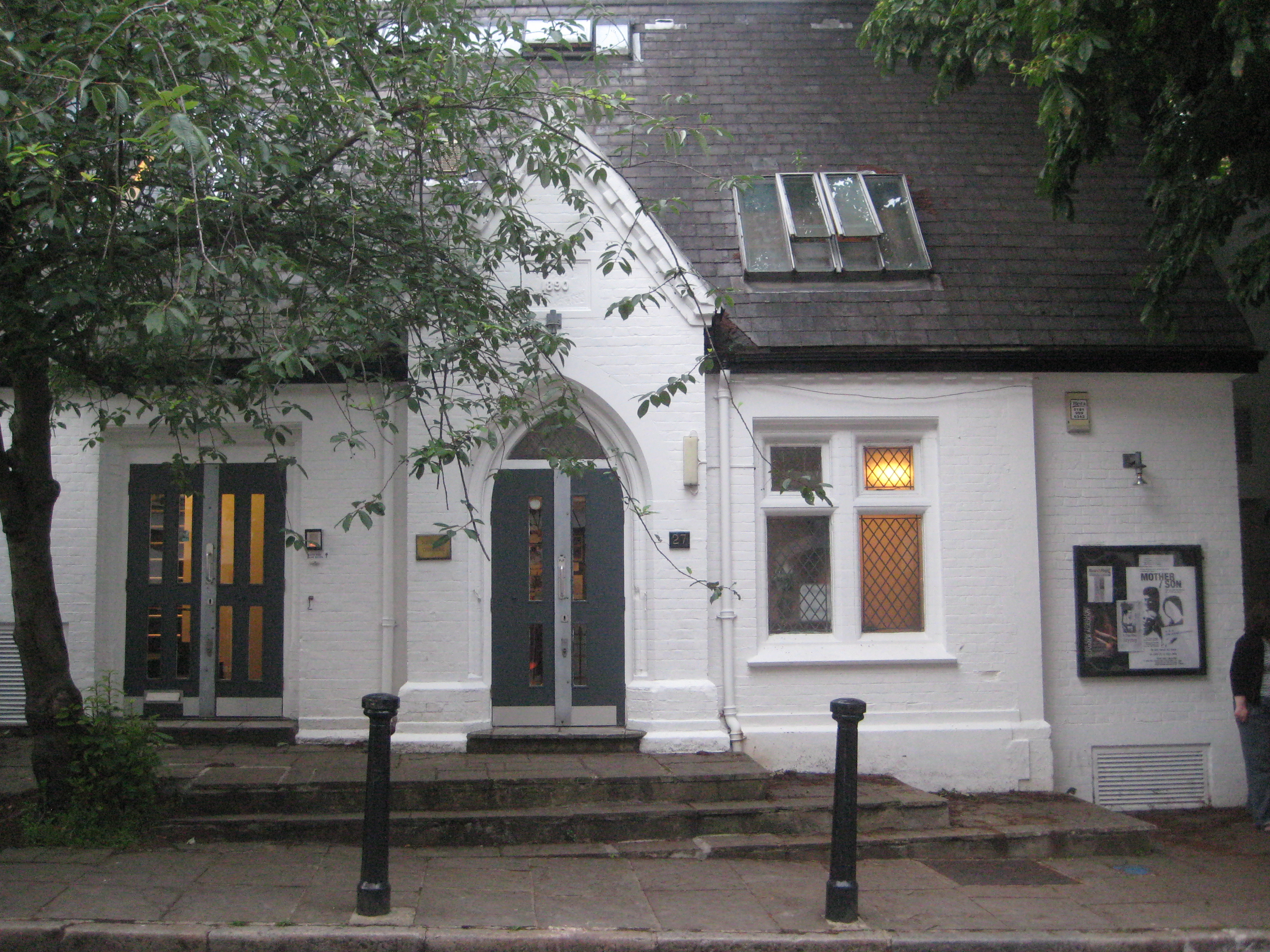 New End Theatre, Hampstead, London, England.